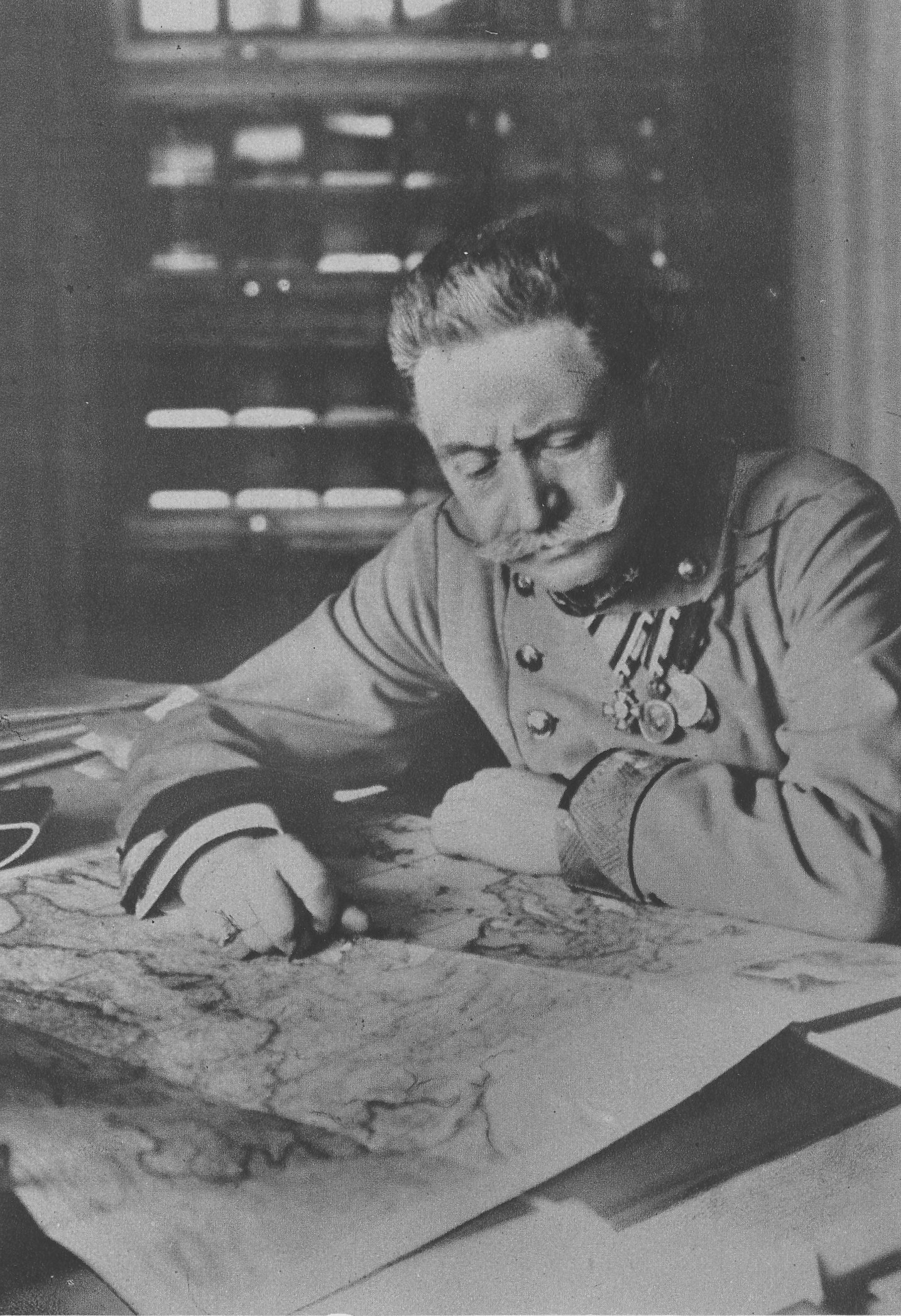 The german officer Franz Conrad von Hötzendorf, Chief of the General Staff of the Austro-Hungarian Army in World War I